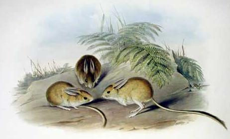 Notomys cervinus (orig. Hapalotis cervinus)